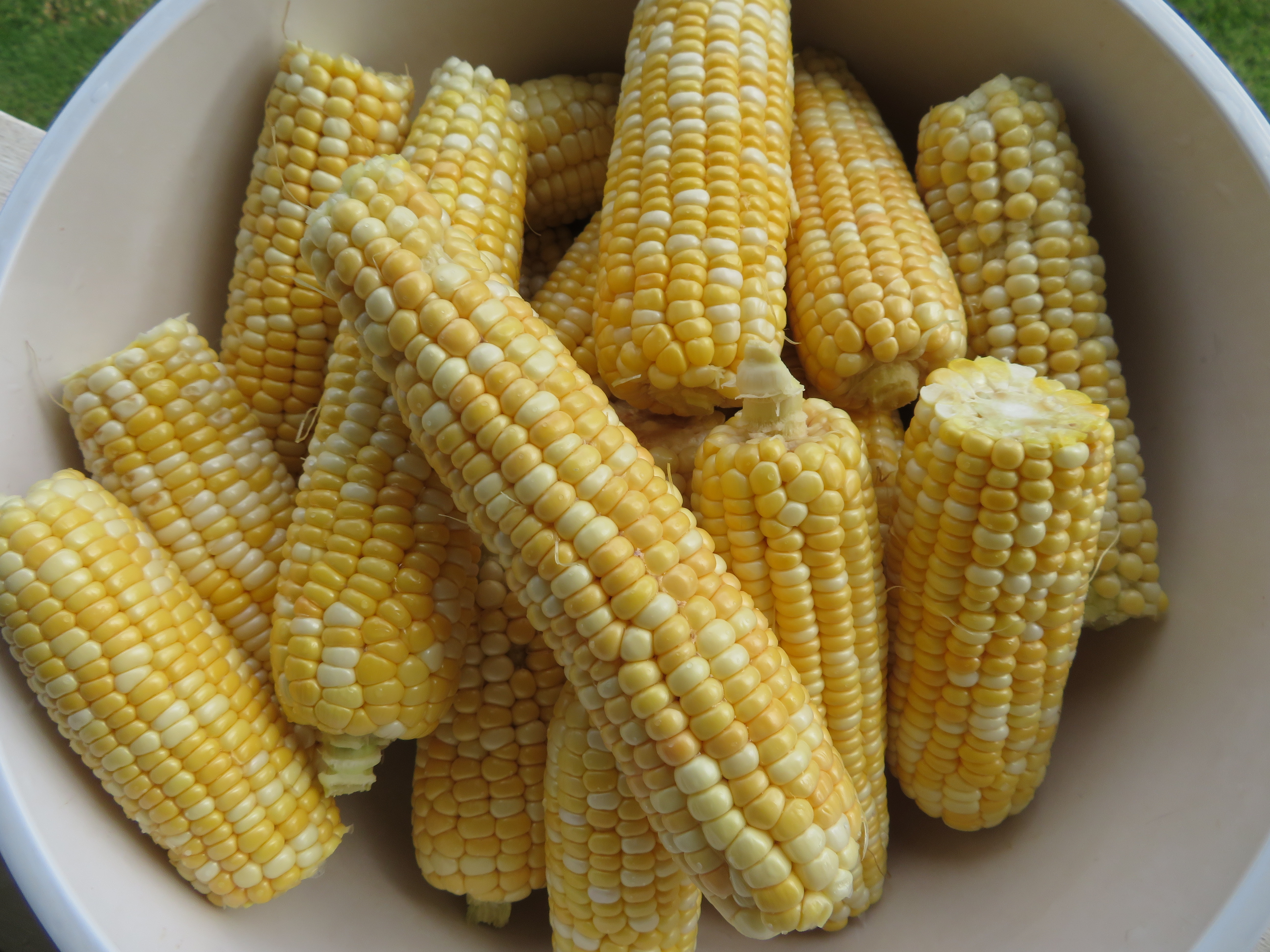 Zea mays (Corn) UH Supersweet 10 harvest at Hawea Pl Olinda, Maui, Hawaii. August 21, 2018 #180821-5260 Image Use Policy